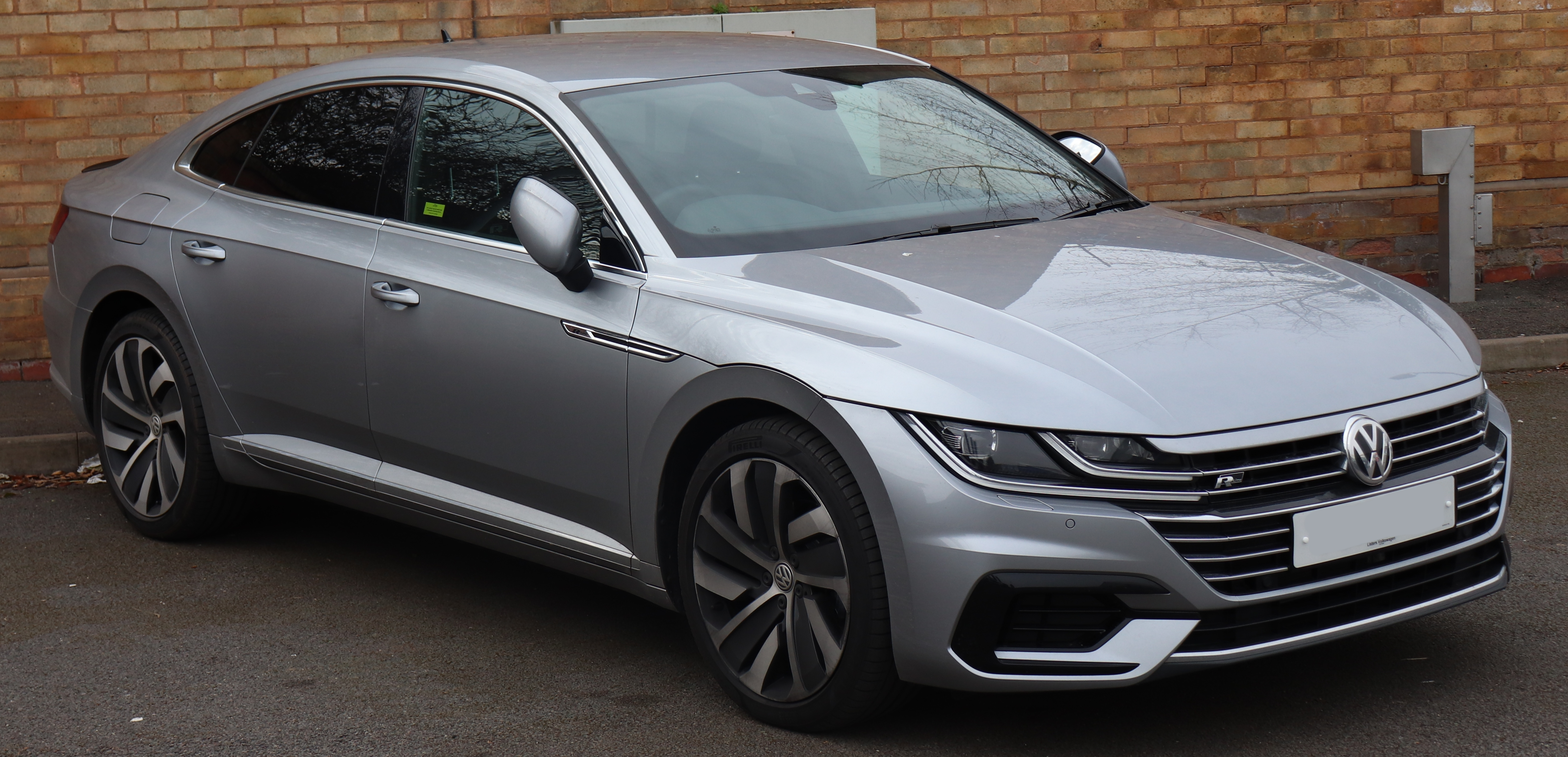 2018 Volkswagen Arteon 2.0 Taken in Stratford-upon-Avon